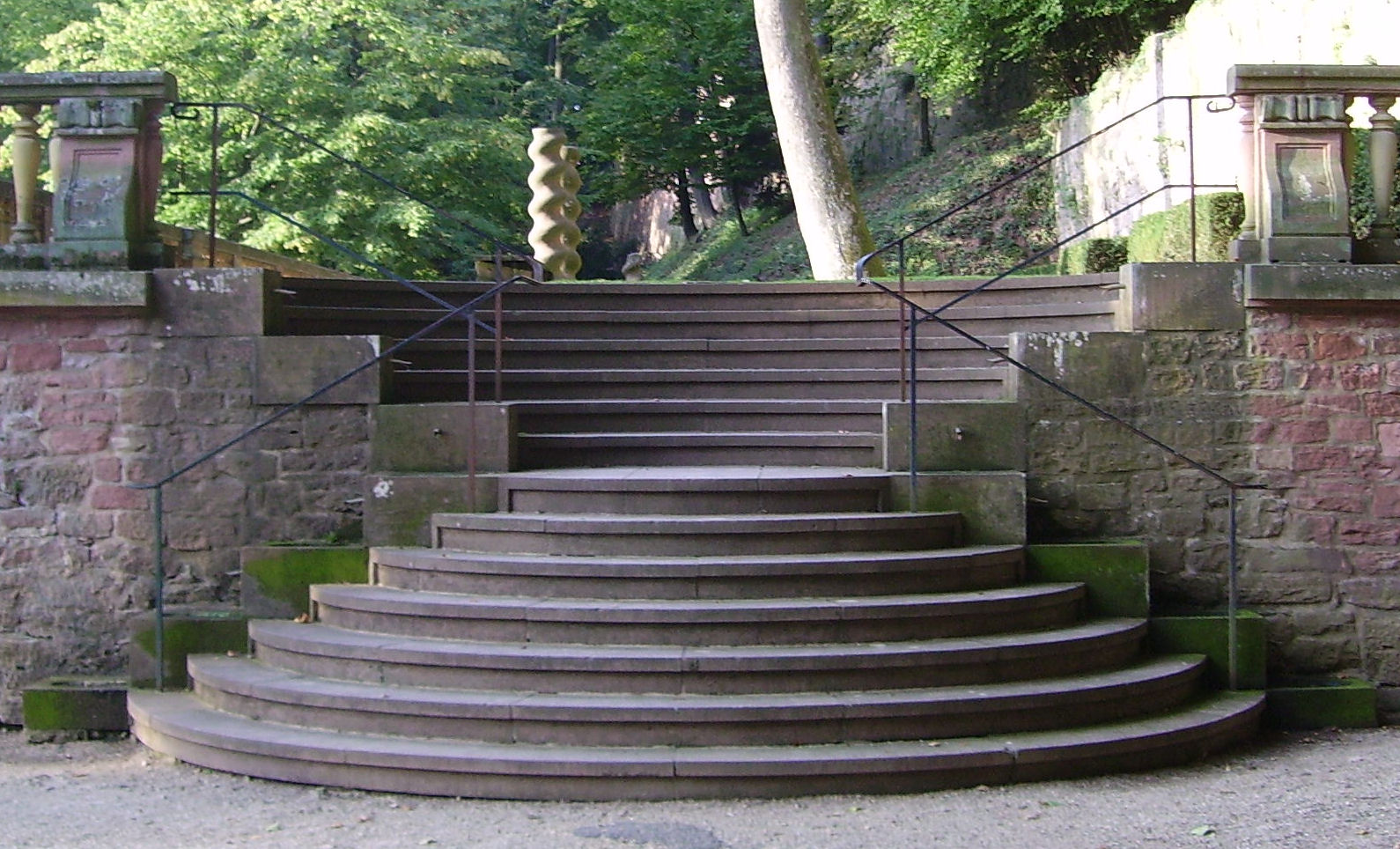 part of Heidelberg castle (Heidelberger Schloss)